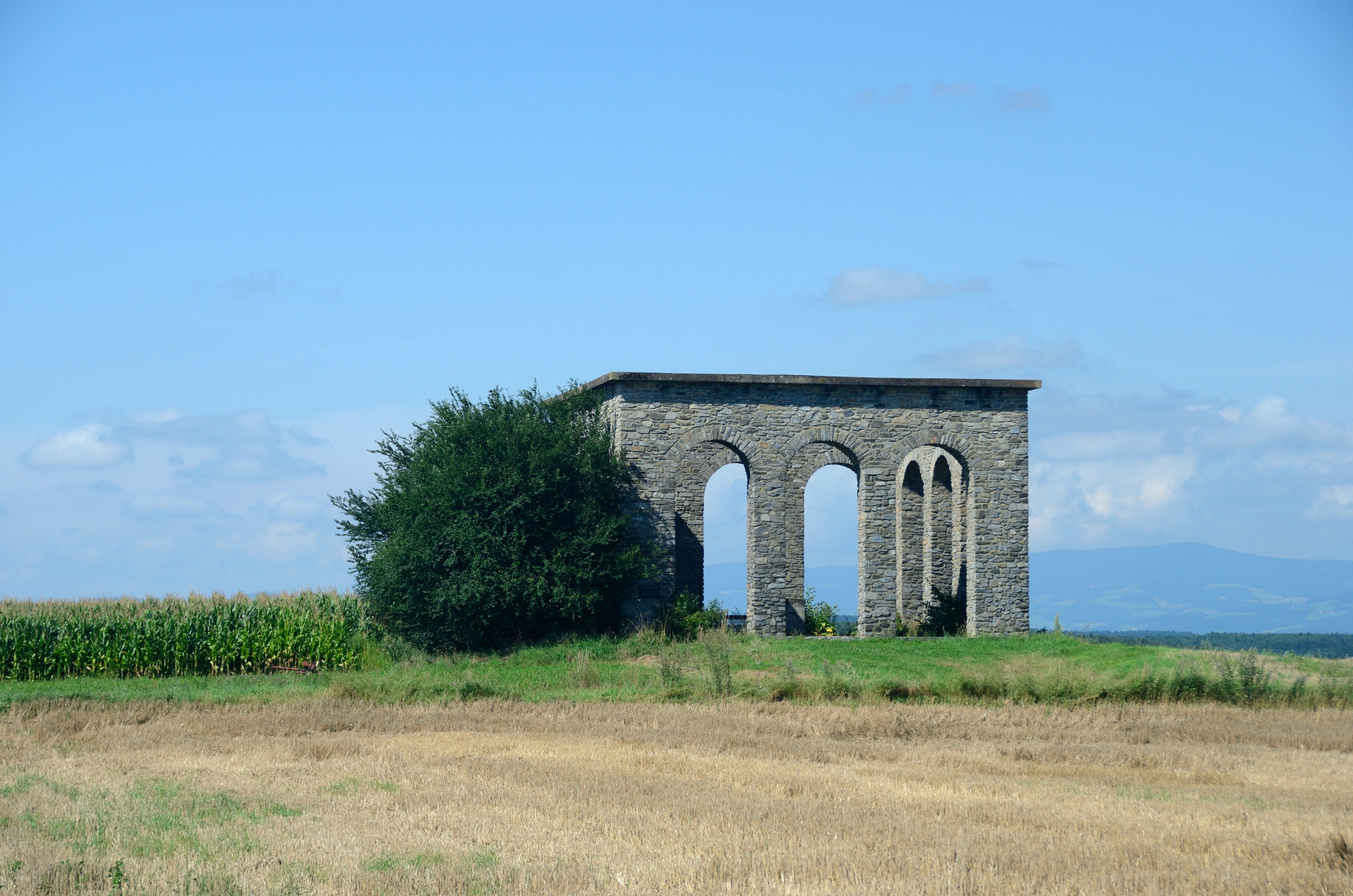 The Anschlussdenkmal in Oberschützen, Burgenland, was built in 1939 by the nationalsozialists after the Anschluss.